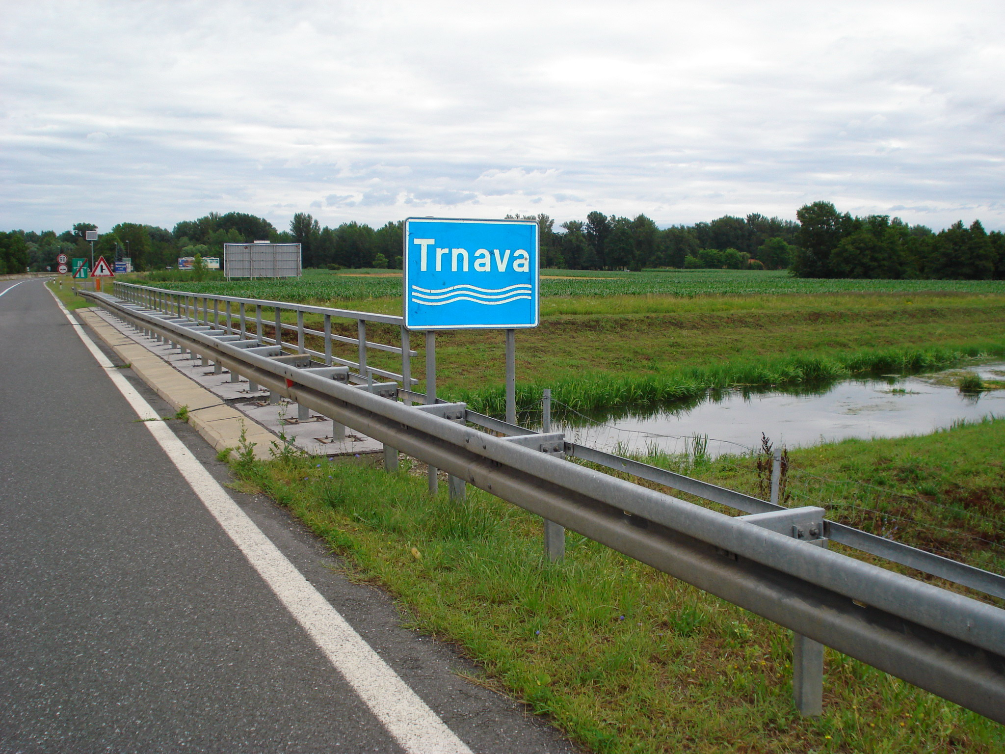 Bridge over the Trnava river at Goričan (Međimurje County, Croatia)